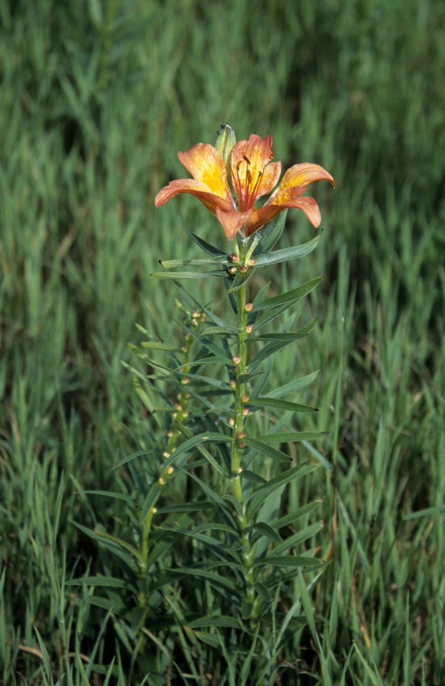 Flowering Lilium bulbiferum subsp. bulbiferum (Liliaceae) in grassland, near Duszniki-Zdrój, Pogórze Orlickie, Central Sudetes Mts., Poland.